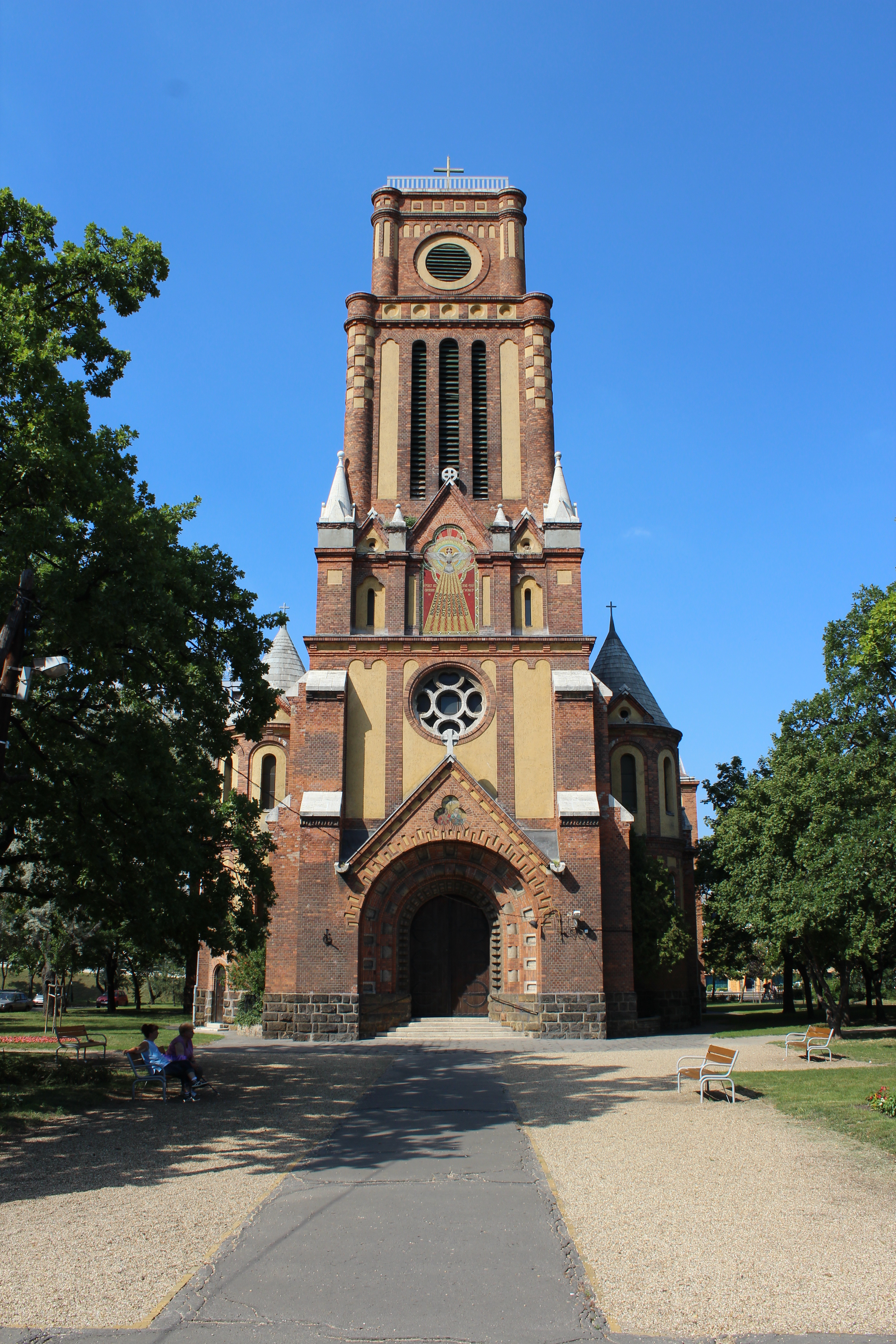 Holy Spirit Church in Kassai square, Budapest